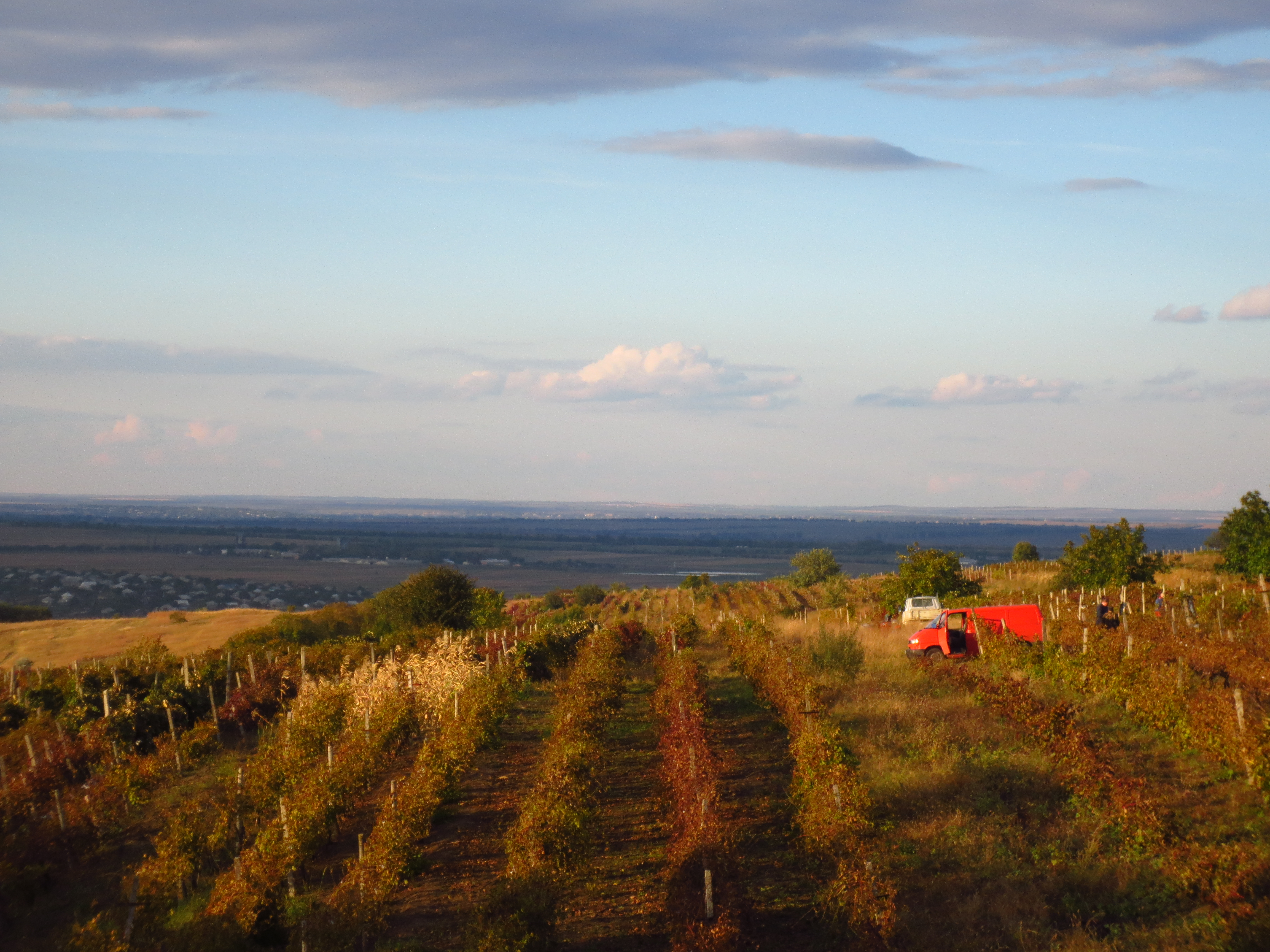 Vineyard at sunset near Bulboaca, Anenii Noi District, Moldova.